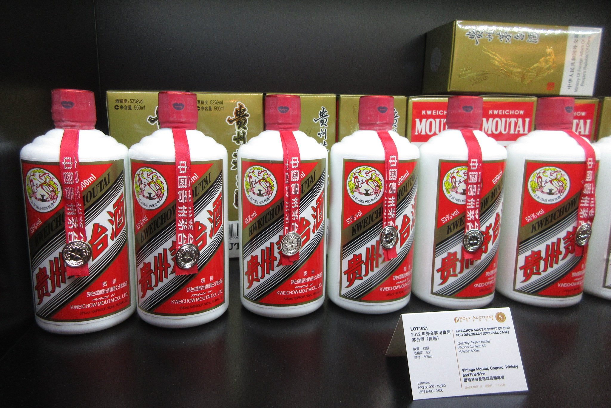 HK Wan Chai North 君悅酒店 Grand Hyatt Hotel 保利集團 Poly Auction Preview exhibition in September 2017